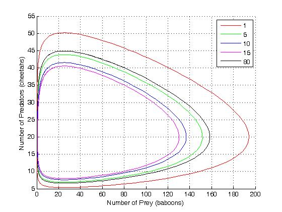 A solution to the cheetah/baboon dynamics problem. The solutions correspond to various iterative methods. Note how the solution oscillates near the point (60,25), corresponding to a population of 60 baboons and 25 cheetahs.